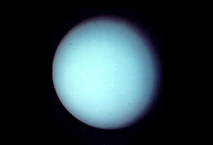 Uranus imaged by Voyager 2 in 1986